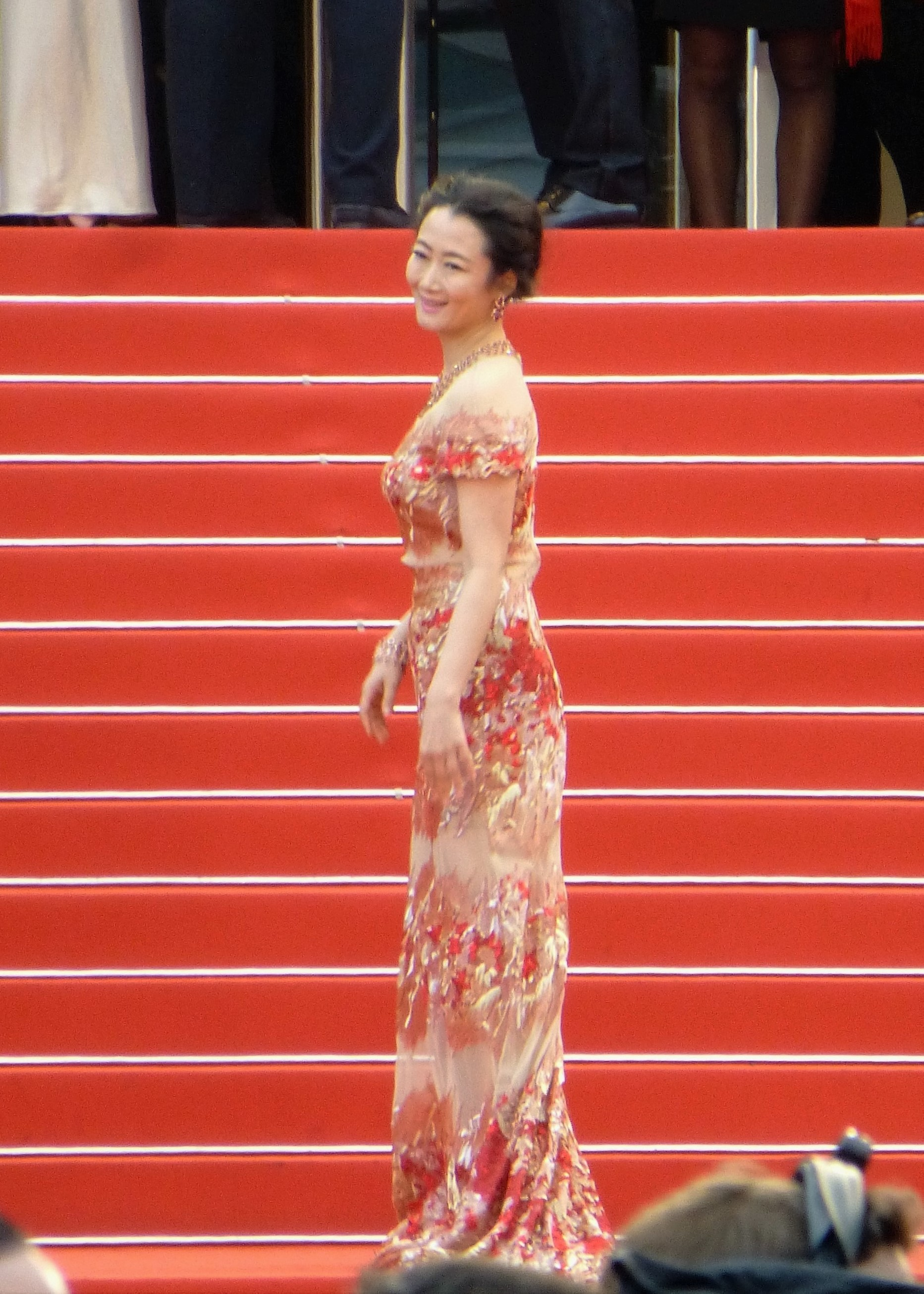 Zhao Tao at the world premiere of Cafe Society, 2016 Cannes Film Festival